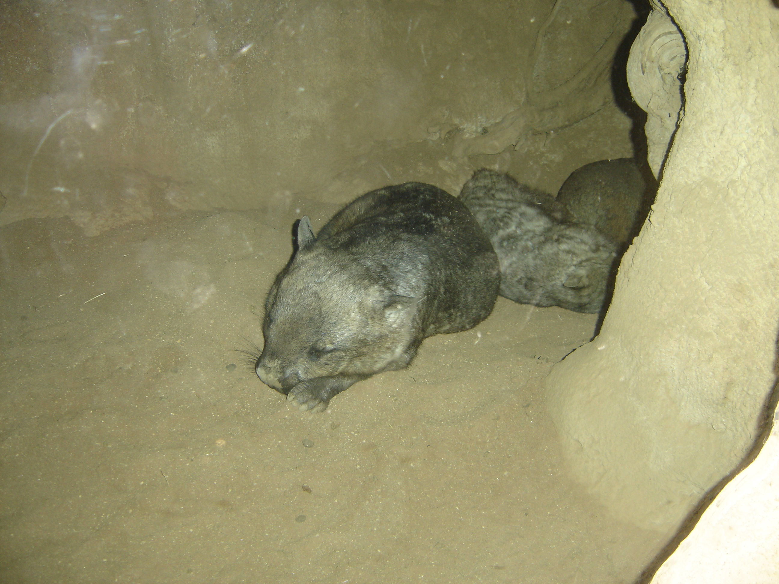 Description: Wombat sleeping in a tunnel at Melbourne Zoo. Author: Angela Beesley